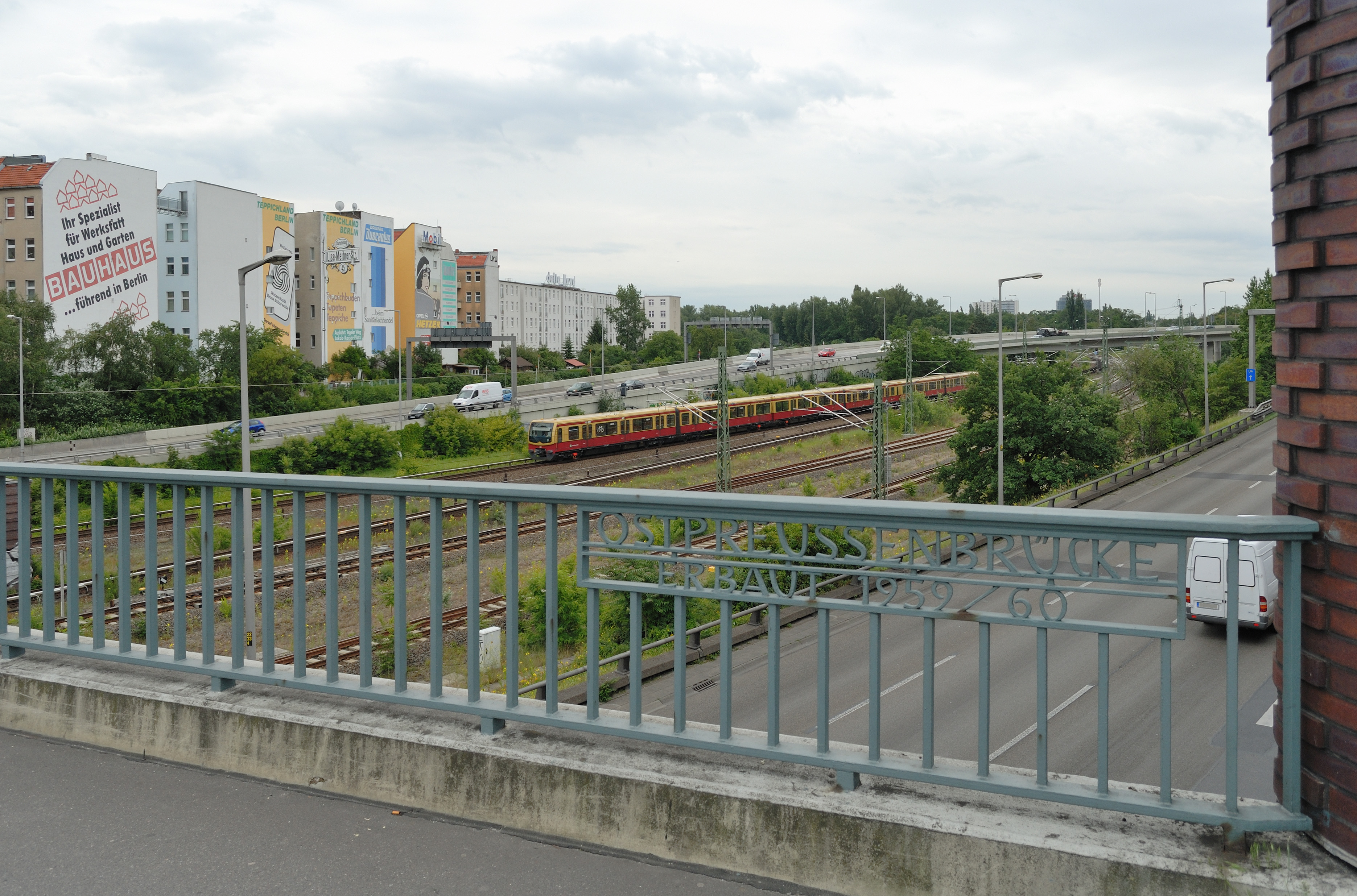 View from Ostpreußenbrücke (Neue Kantstraße) of A 100 and an S-Bahn train.